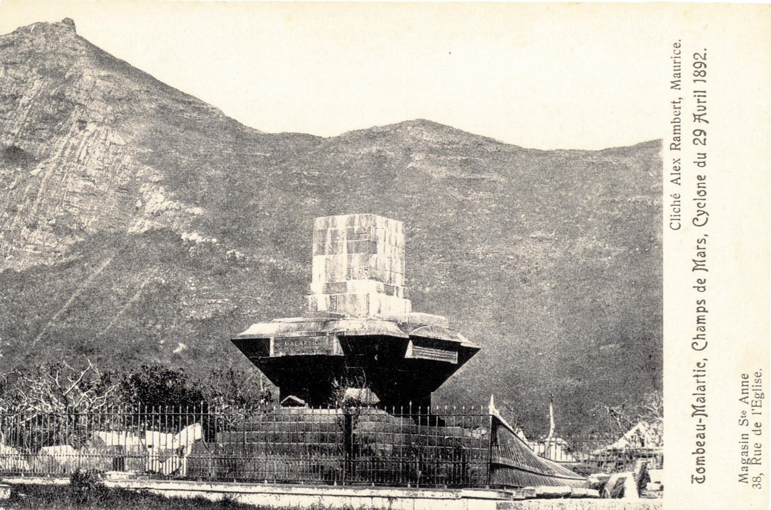 Malartic Tomb, Port Louis, destroyed by a cyclon 1892